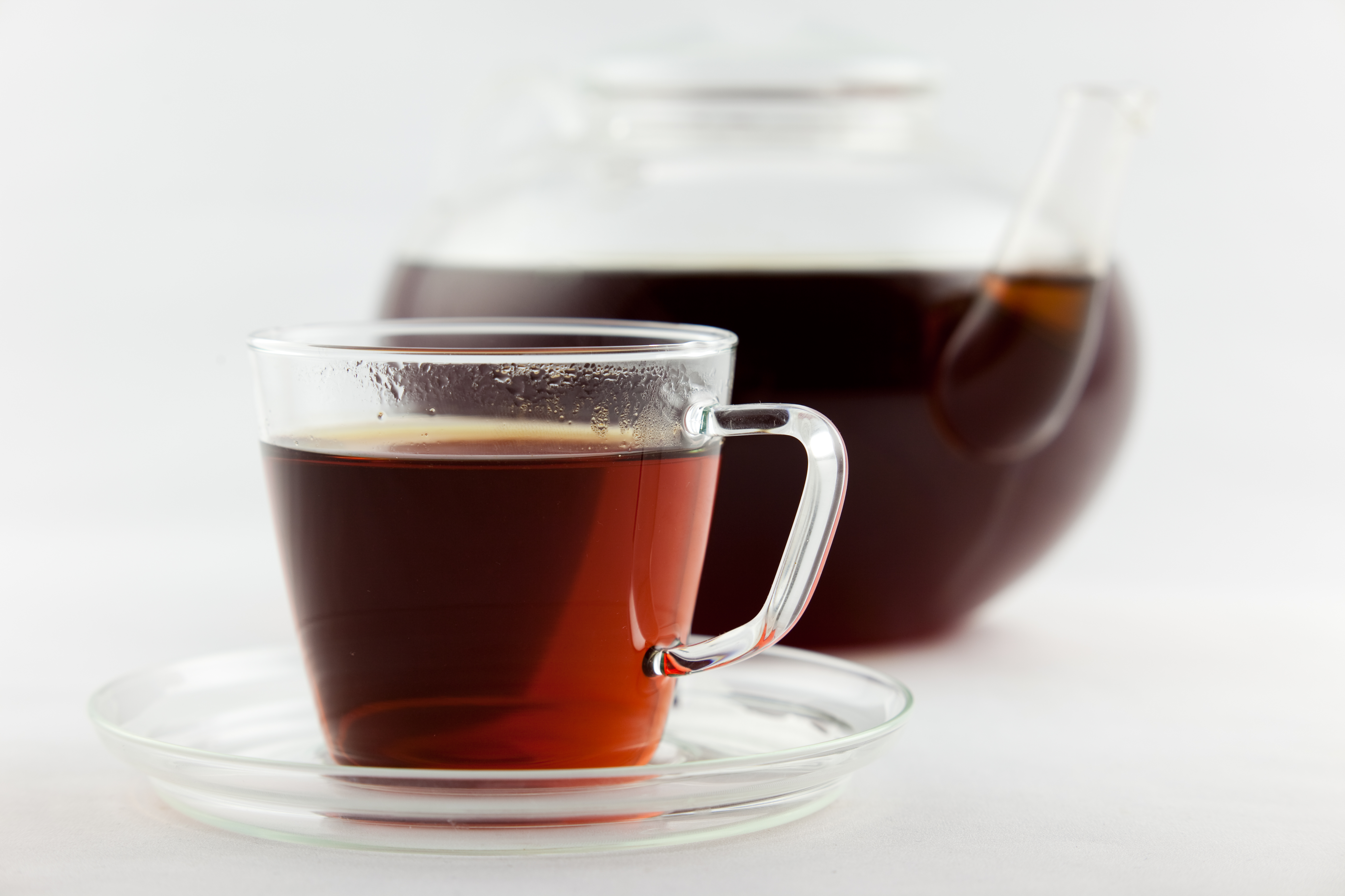 Rooibos tea